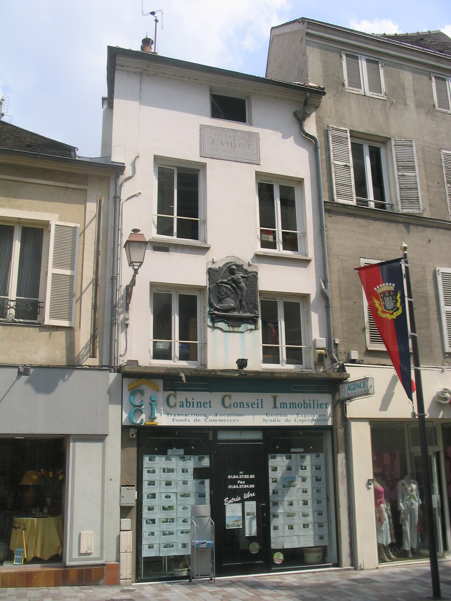 Birth house of Jacques Amyot in Melun (Seine-et-Marne, France).